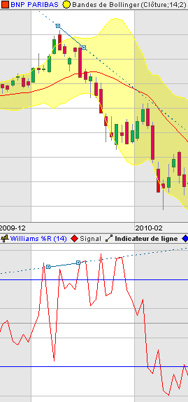 William R% divergence on BNP Paribas